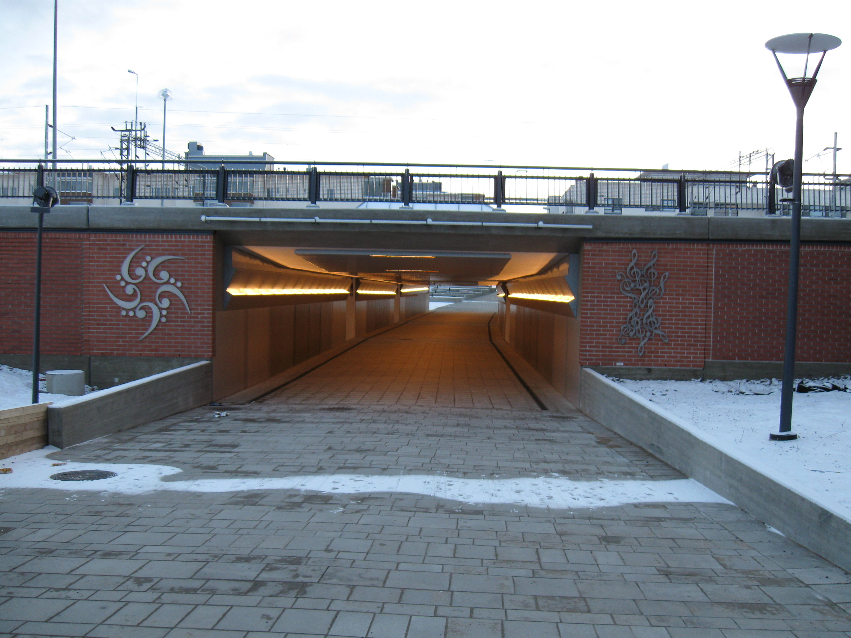 A pedestrian tunnel Madetojanraitti in Oulu, Finland. A view from Vanhatulli towards Karjasilta.